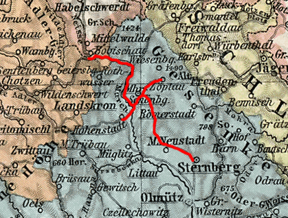 MGB - network